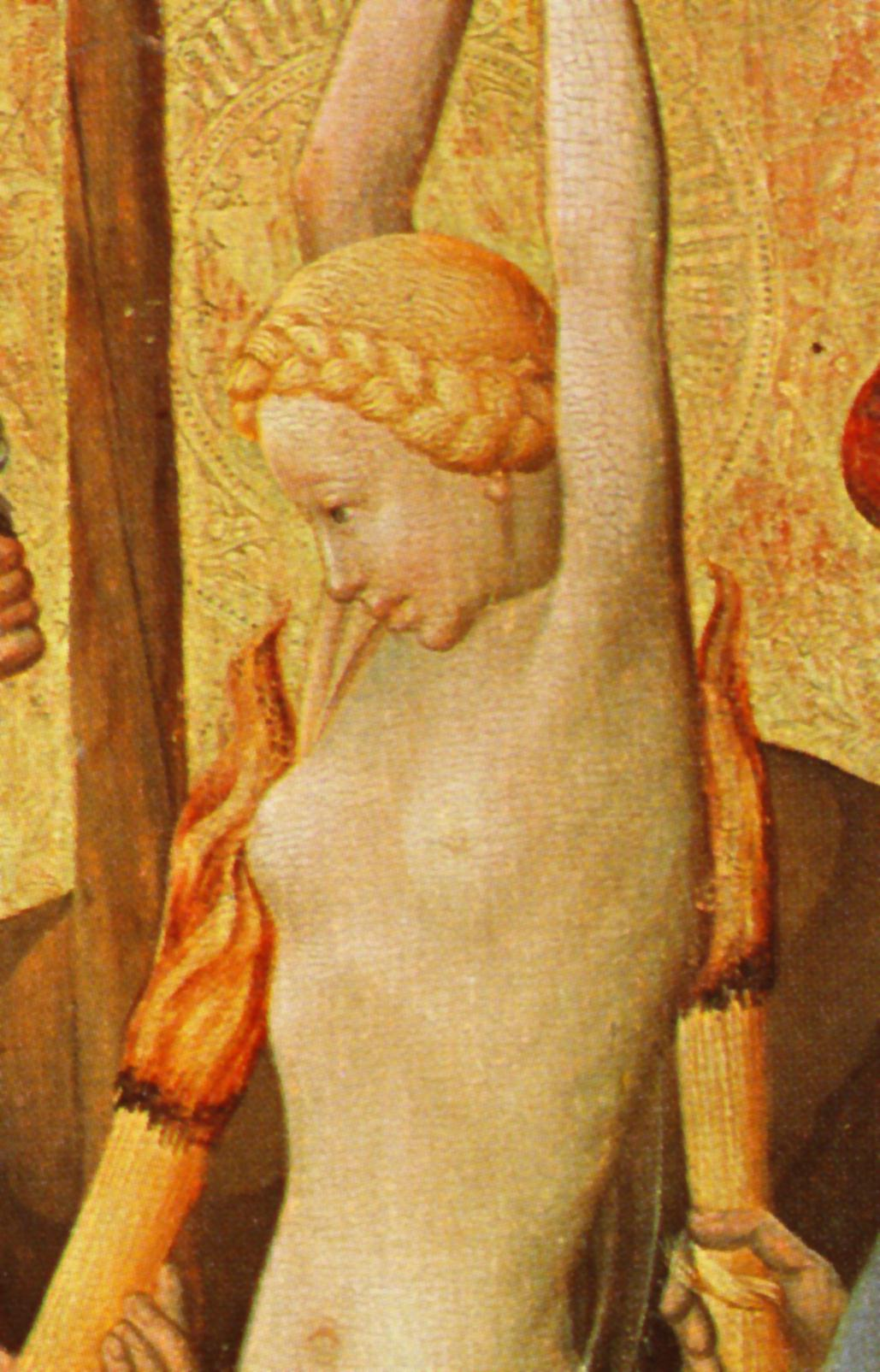 Detail of the seventh painting in Barbara altar by Master Francke, "Saint Barbara on the Gallows"